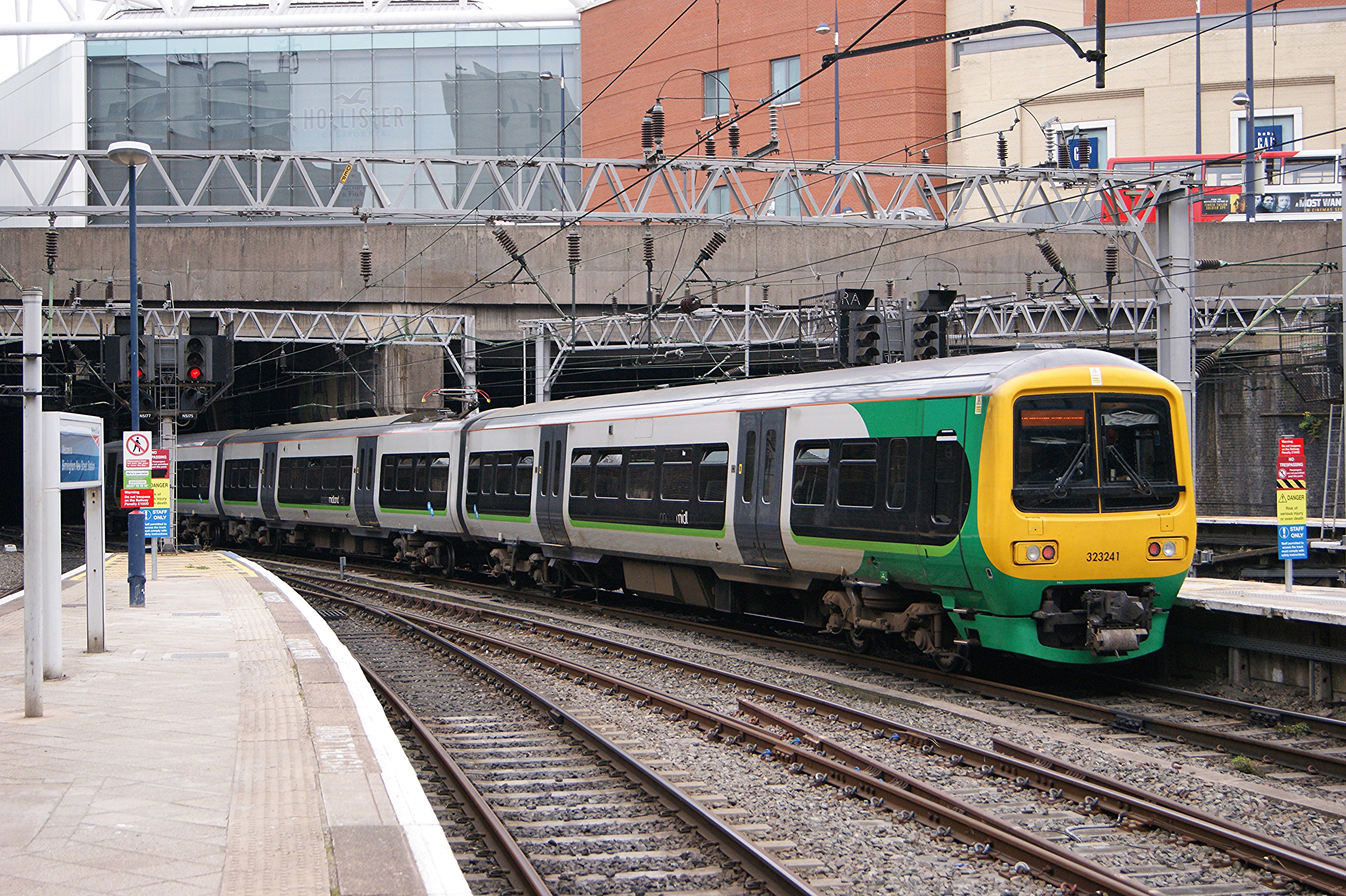 Hunslet Class 323 suburban 25 kV AC overhead 3-car emu No.323 241 of London Midland City leaving Birmingham New St on a service to Lichfield Trent Valley, 13/09/14.